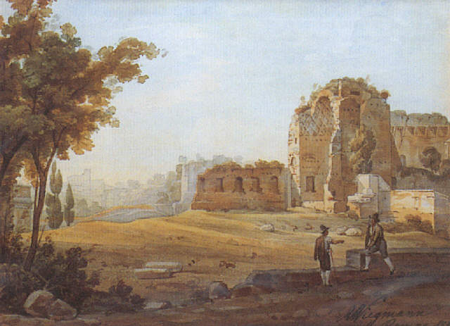 The Roman Forum in Rome 1832